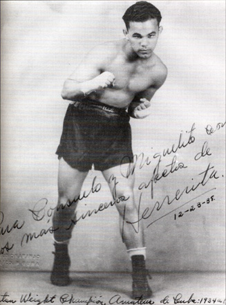 photo of Miguelito Valdés as a boxer